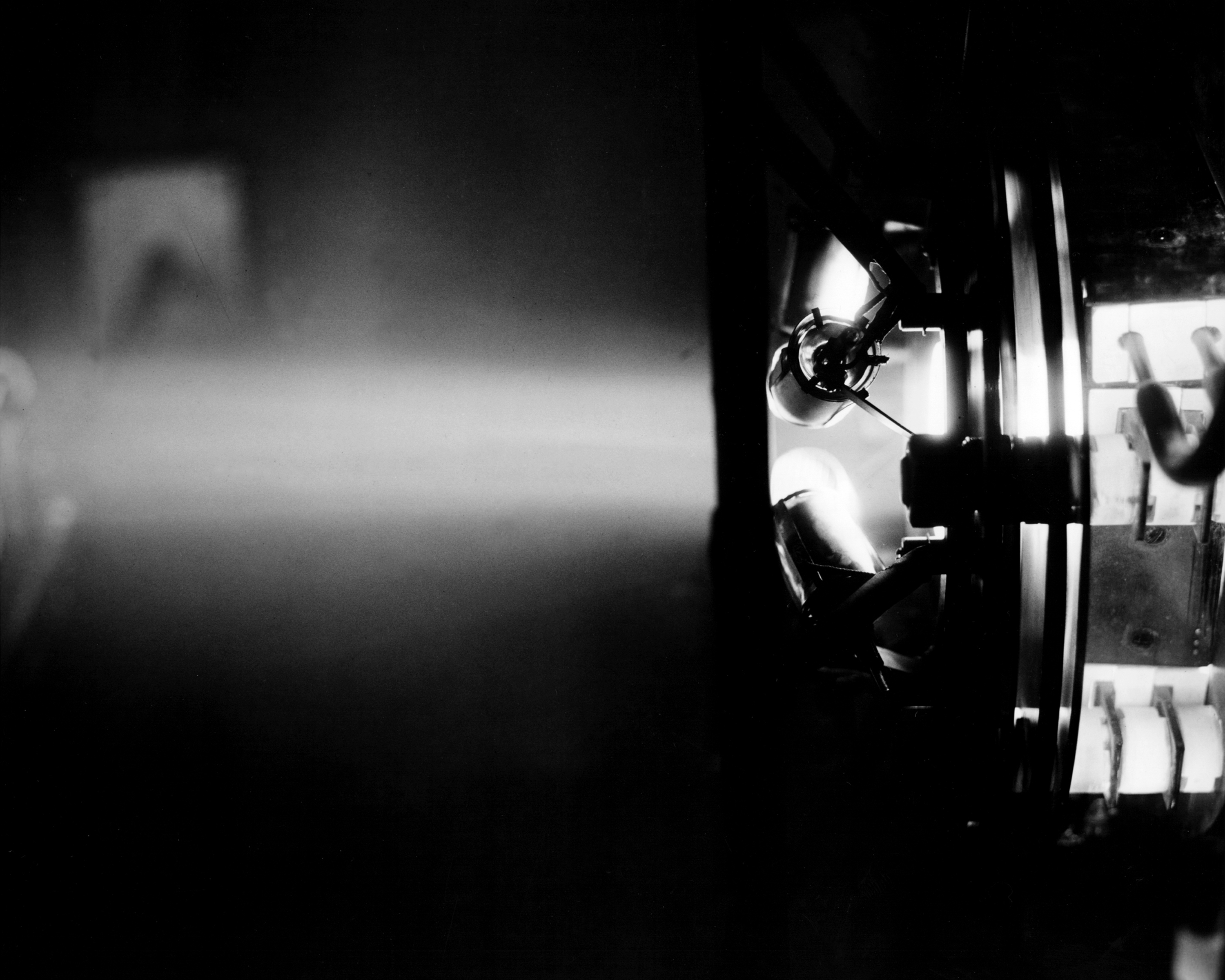 This small ion rocket is being tested inside a vacuum test facility. The test is being monitored by a small camera lens inside the test chamber. Ion rockets are an idea that has existed since the 1950s. They were first used operationally by the Soviet Union and later were employed by American commercial spacecraft and NASA space probes. They provide very low thrust, but are extremely efficient.